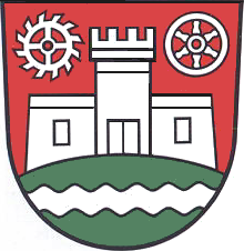 Coat of arms of Mühlberg, Part of Drei Gleichen